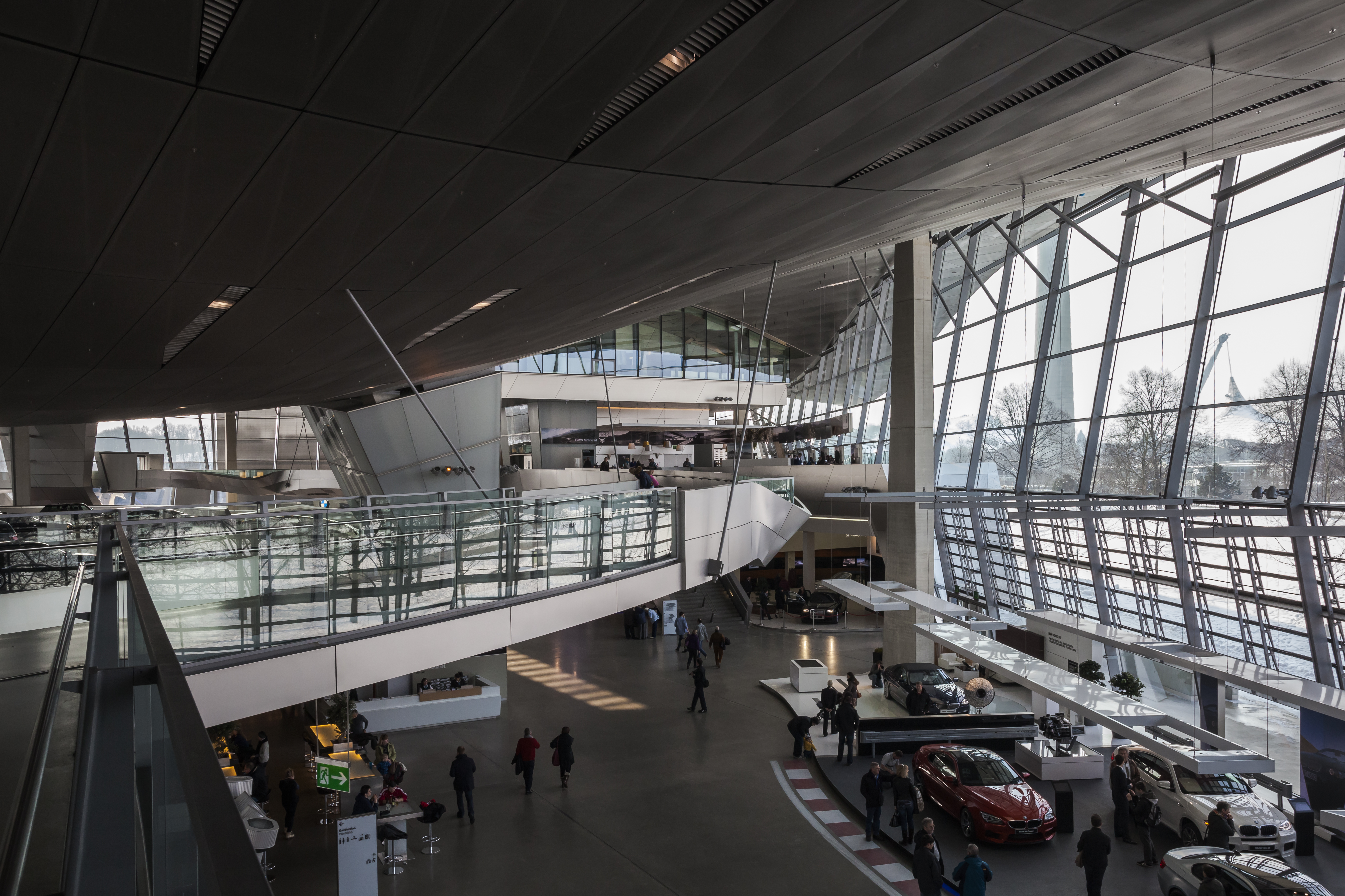 Interior of the BMW Welt, Munich, Germany